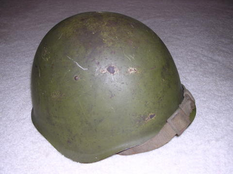 Ssh39 helmet (World War II the Soviet Union), note the high placement of the rivet (below the white scratch). This helmet has the 2nd pattern gralex liner and is dated 1940.